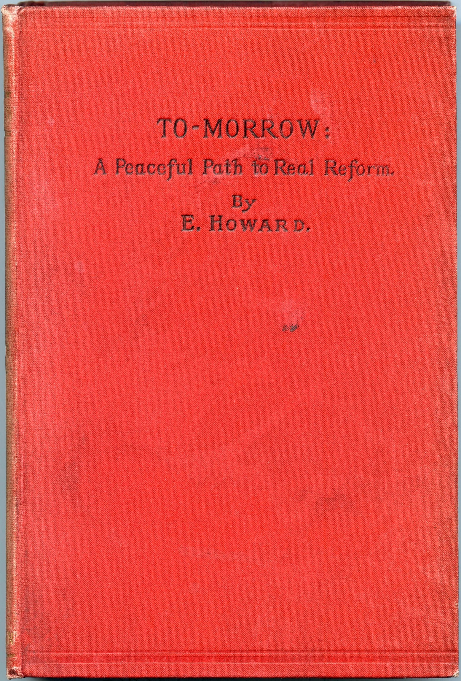 Howard, Ebenezer, To-morrow: A Peaceful Path to Real Reform, London: Swan Sonnenschein & Co., Ltd., 1898.